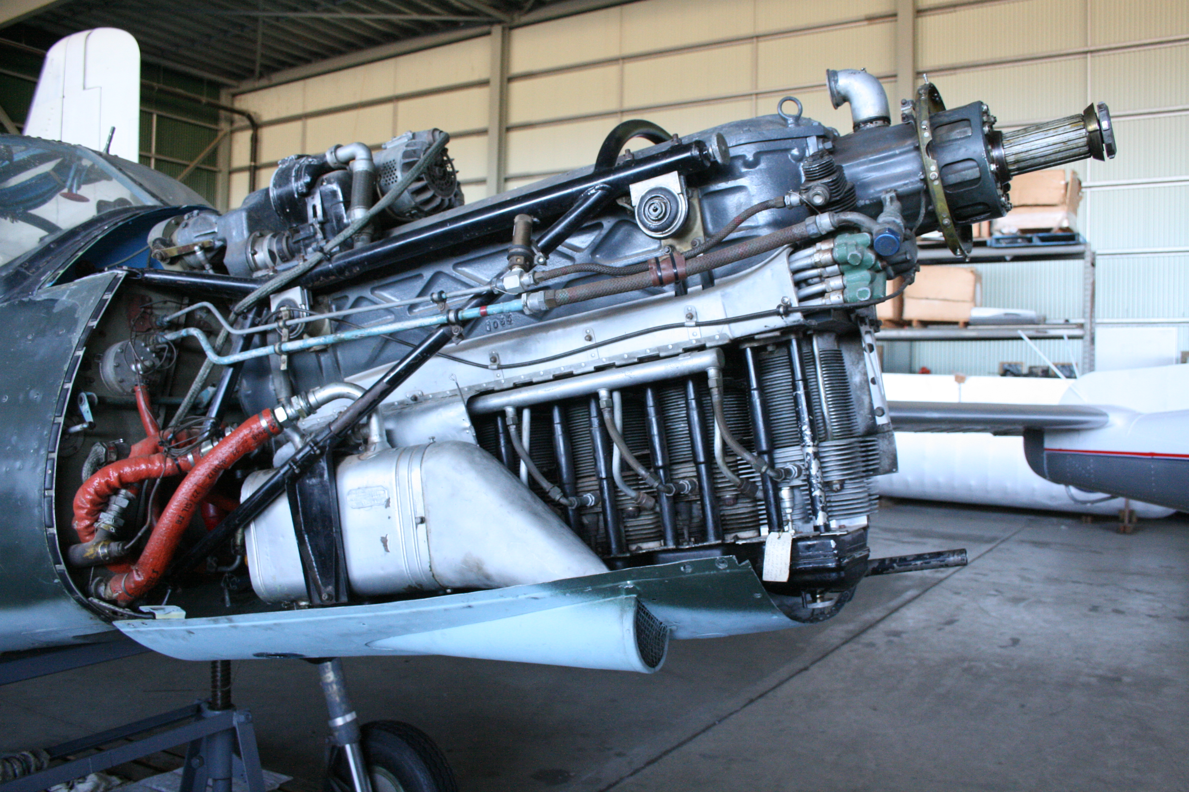 A Renault 6Q-10A engine installed on a Nord 1002 aircraft.